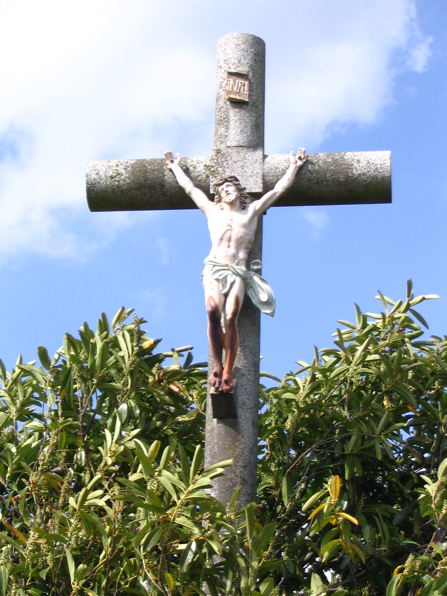 A calvary in Belgeard, Mayenne, France.